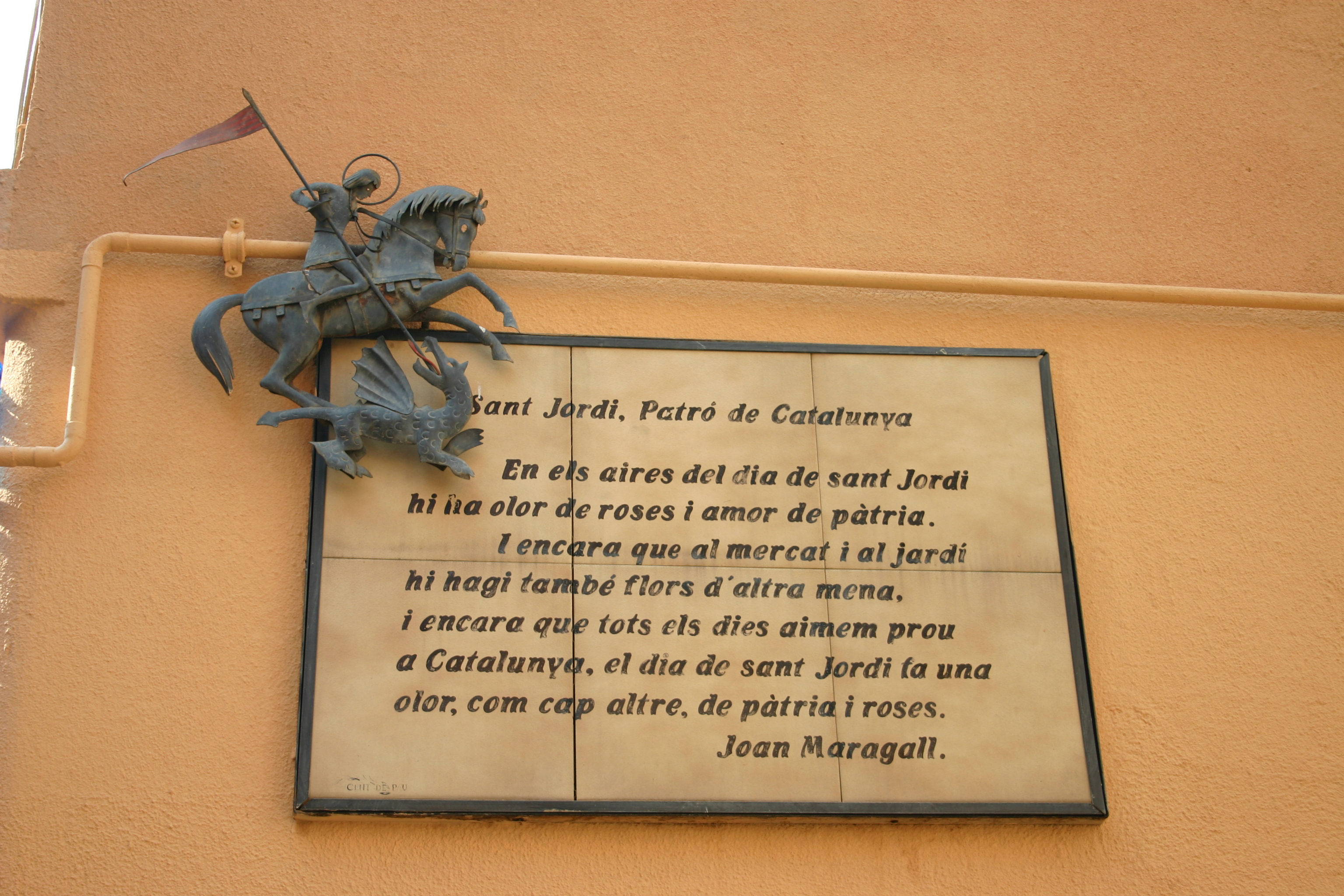 Xipreret street